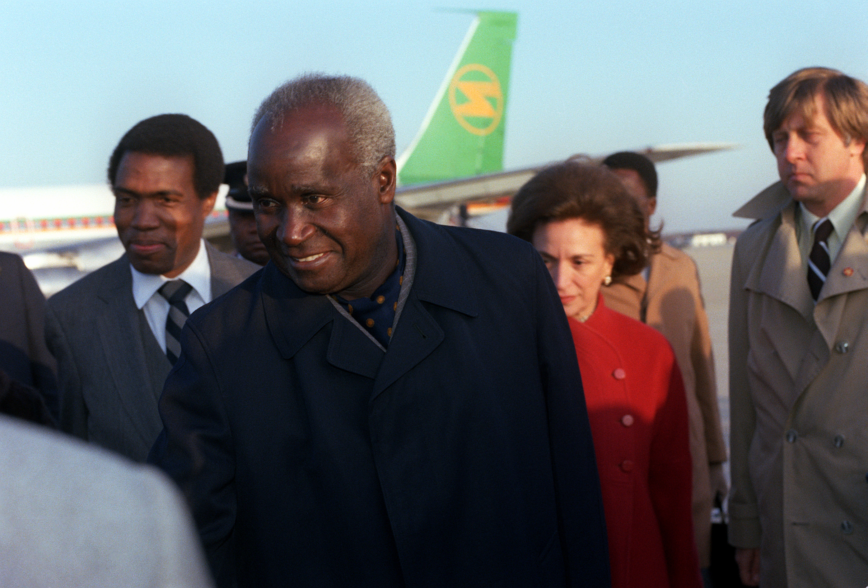 ANDREWS AIR FORCE BASE, Arrival ceremonies are held for President Kenneth Kaunda of the Republic of Zambia as he arrives for an official visit.